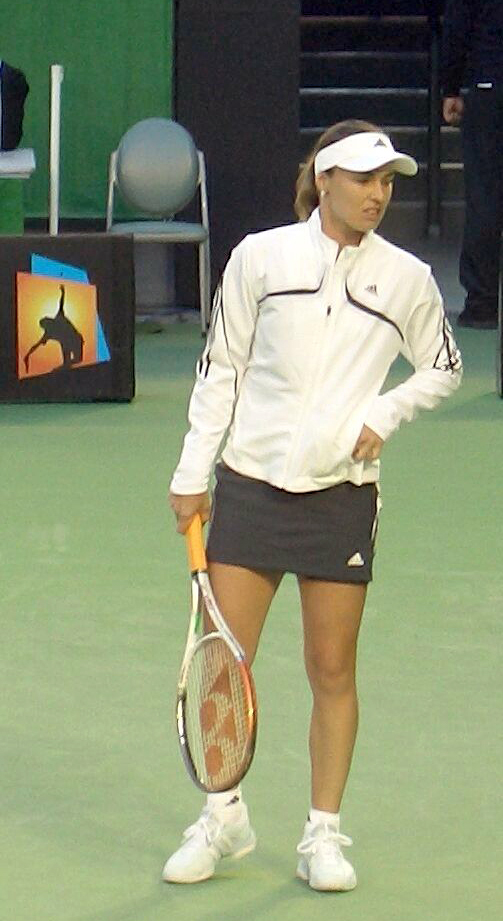 Martina Hingis warms up in her first round match of the Australian Open, 2006. Hingis won the match against the 30th seed easily, in her first Grand-Slam tournament since her comeback.